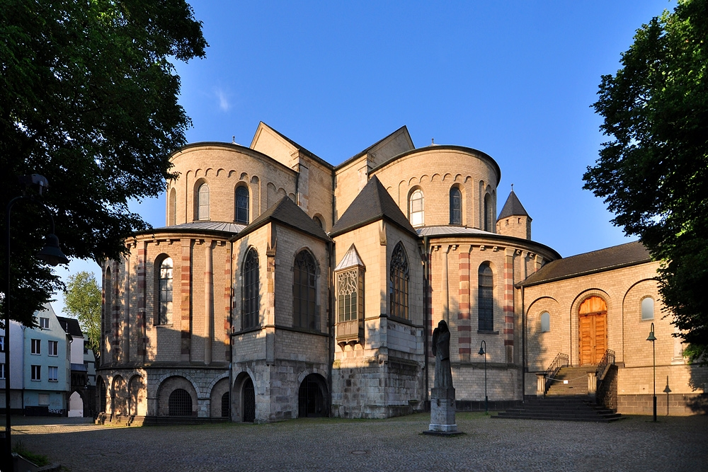 St. Maria im Kapitol basilica, located in Colgne, Germany